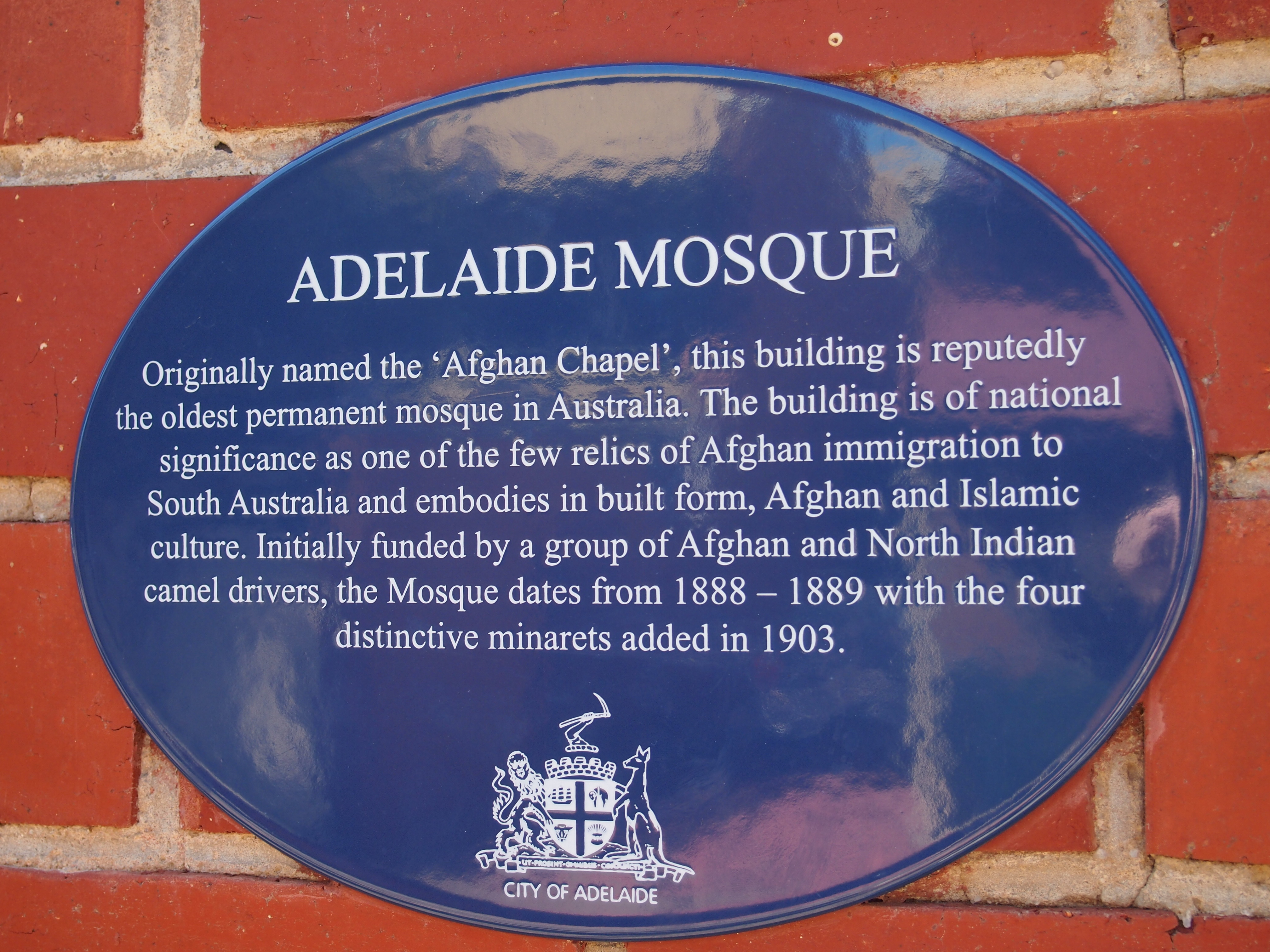 Plaque at the Adelaide Mosque Original filename = P3071323.JPG